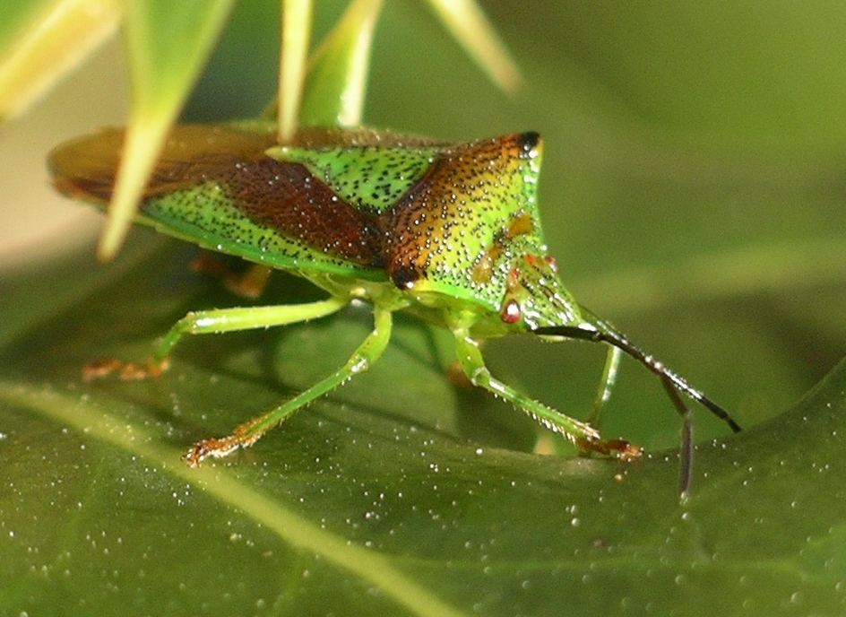 Acanthasoma haemorrhoidale - Hawthorn Shield Bug on Holly (Ilex aquifolium)